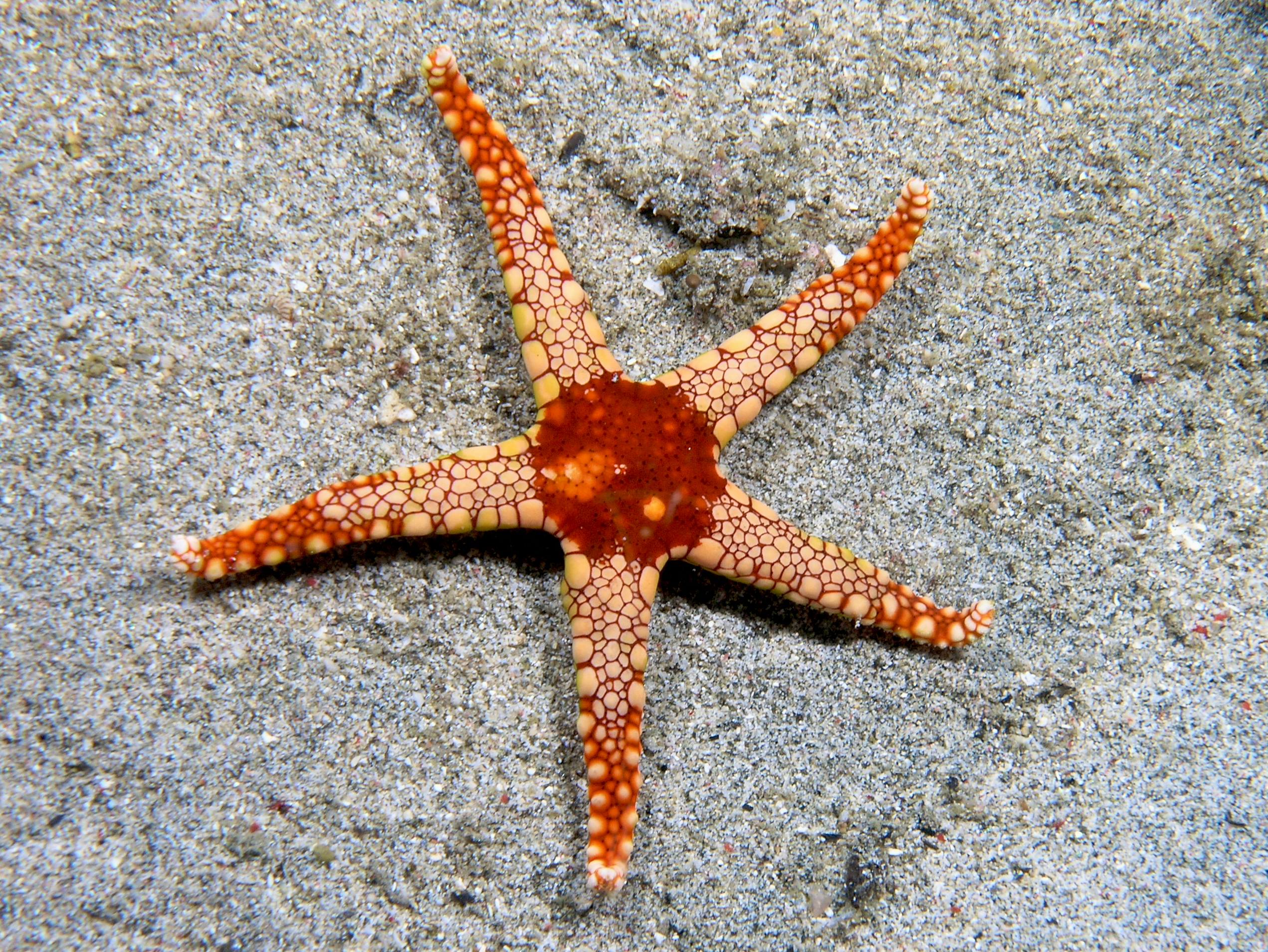 Fromia monilis (Seastar)